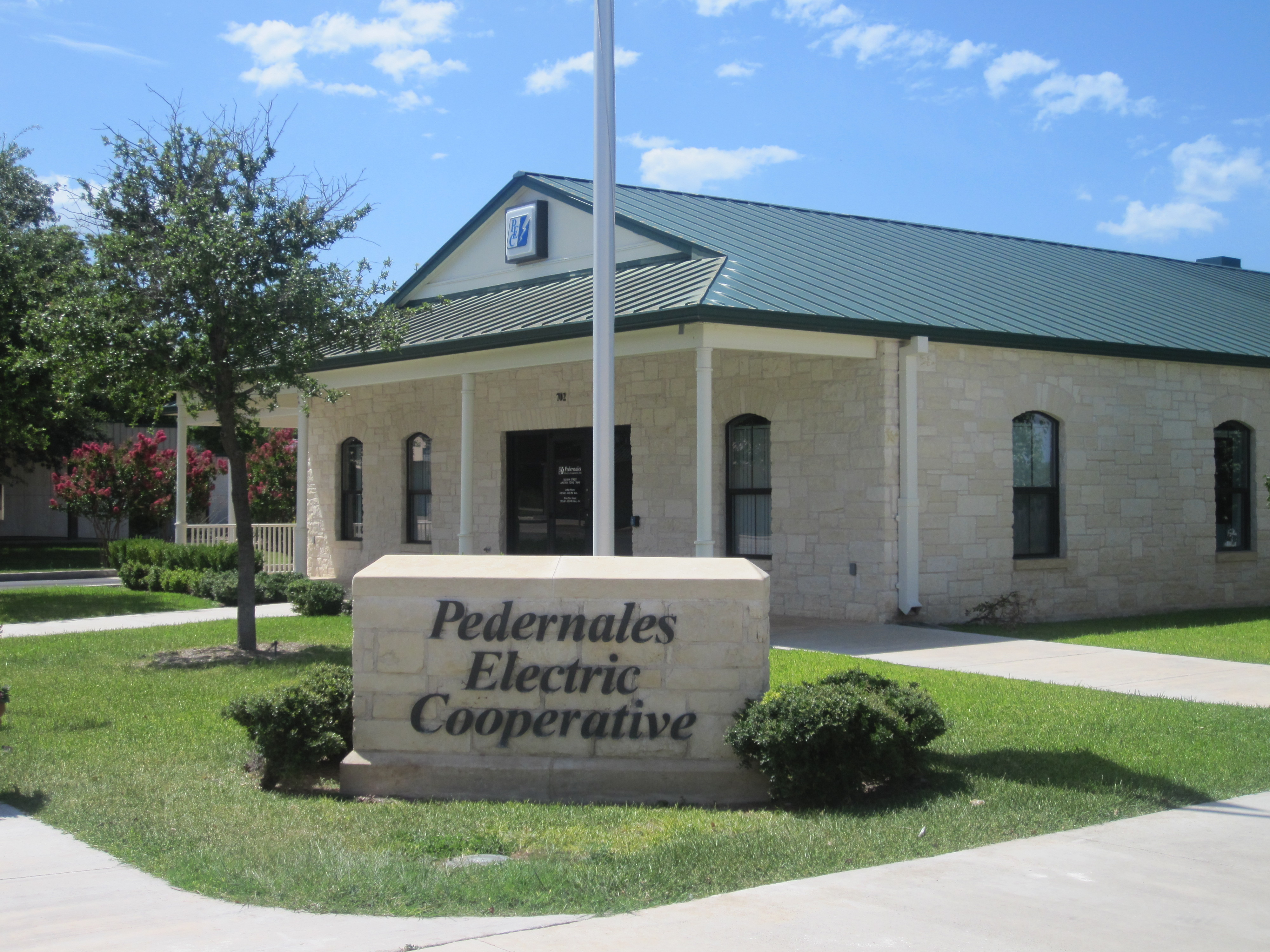 I took photo with Canon camera in Junction, TX.